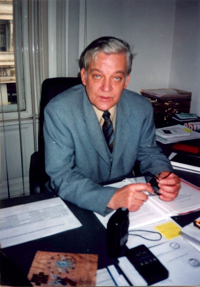 Sándor Tonk (1947-2003) Hungarian Transylvanian historian, first rector of Sapientia Hungarian University of Transylvania